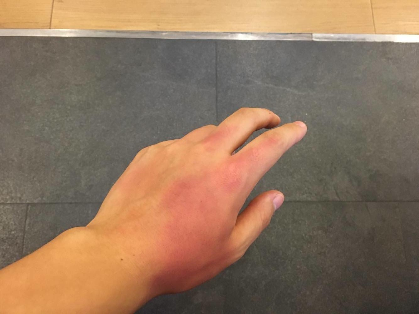 A picture of a chemical burn